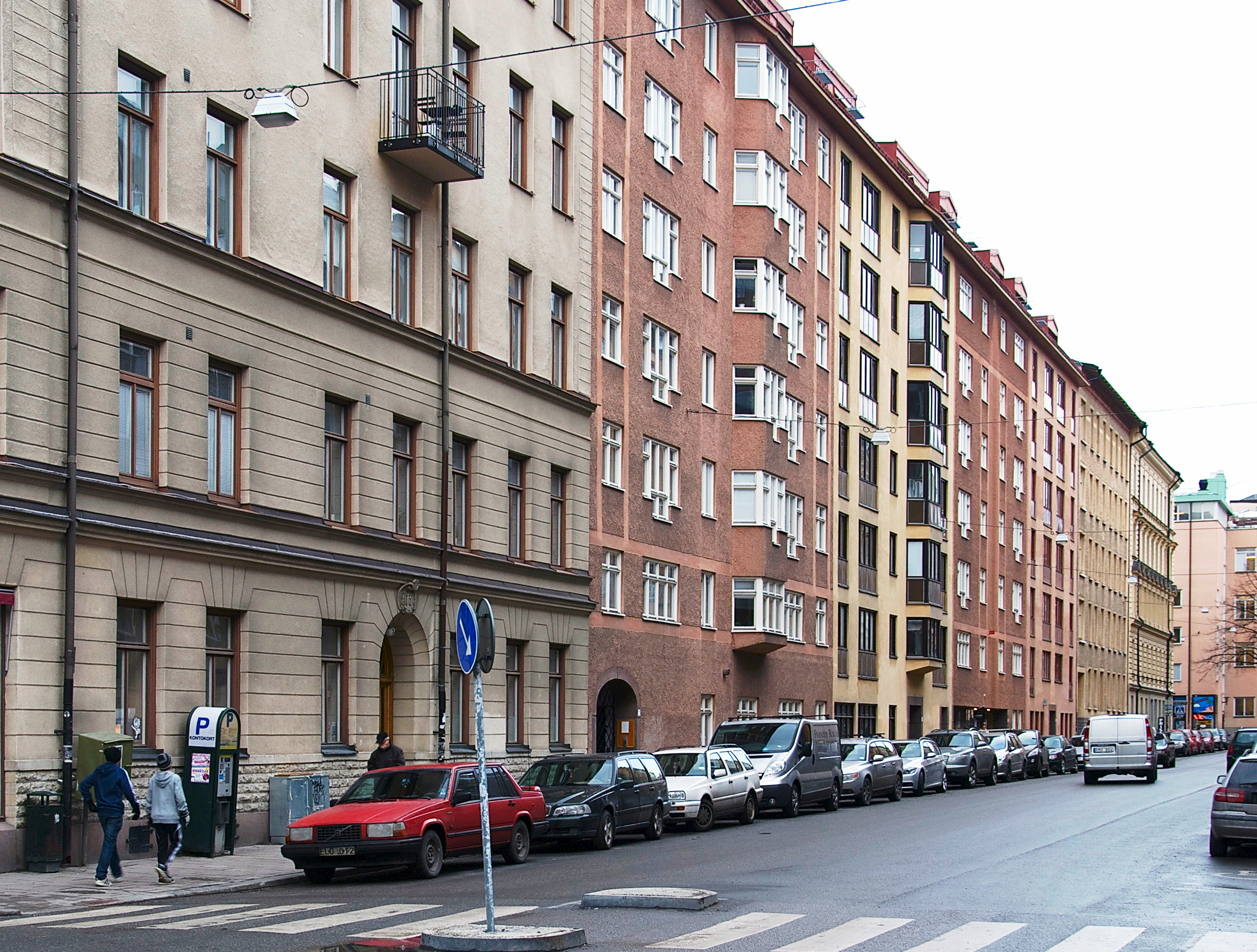 Kvarteret Mullvaden första